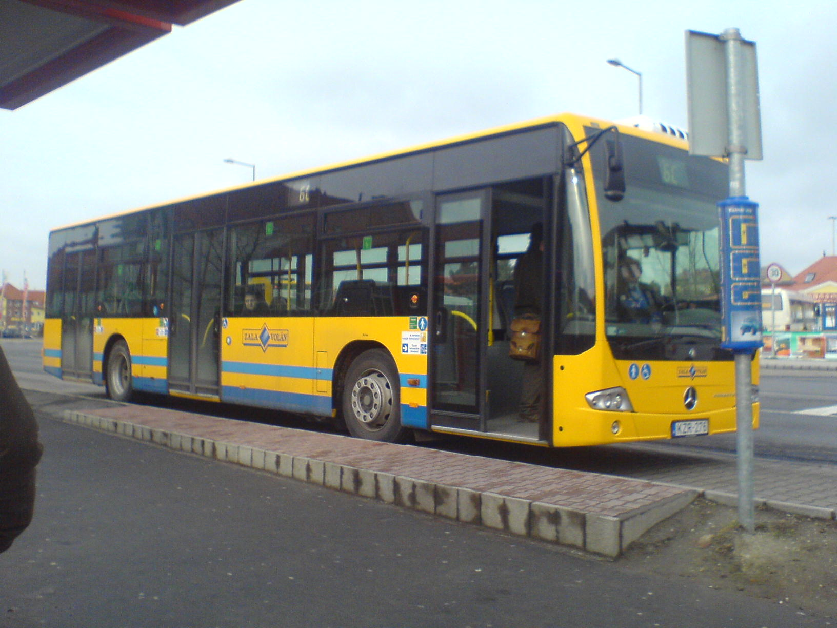 Mercedes Conecto Bus on Nagykanizsa, Hungary